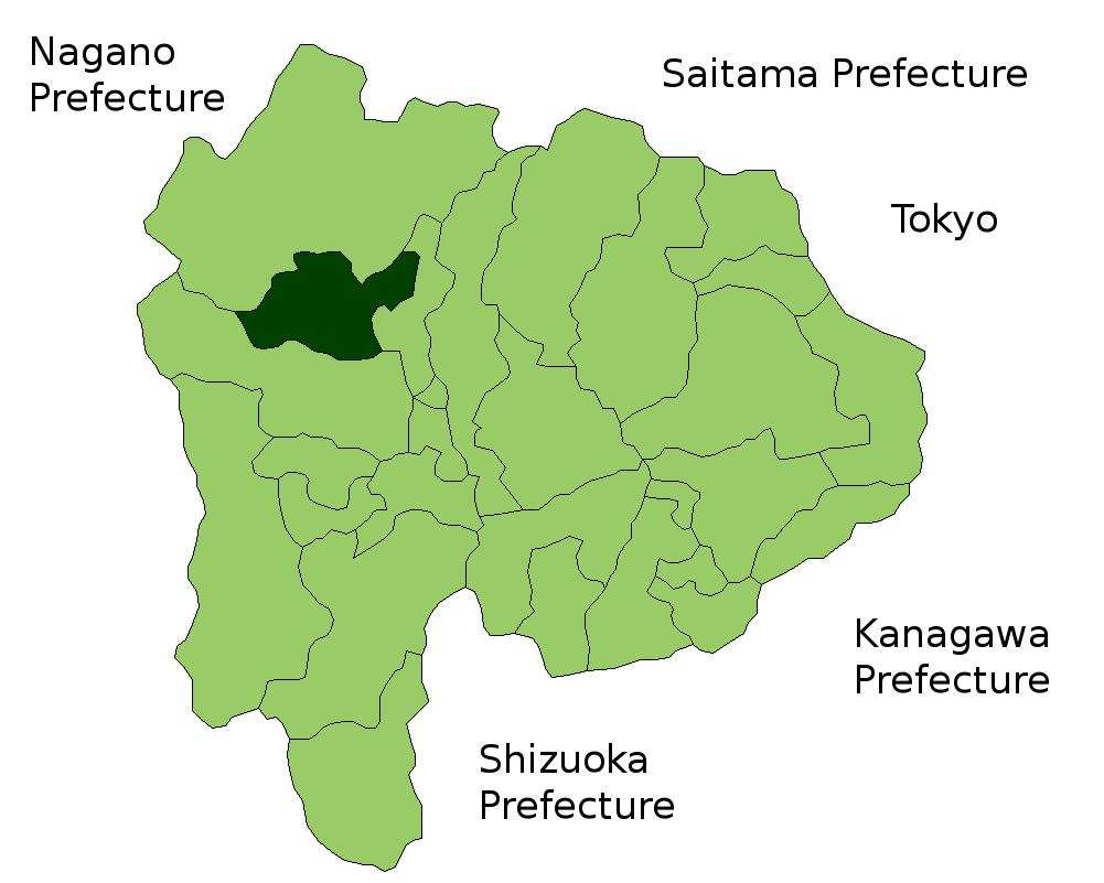 Location Map of Nirasaki in Yamanashi Prefecture, Japan